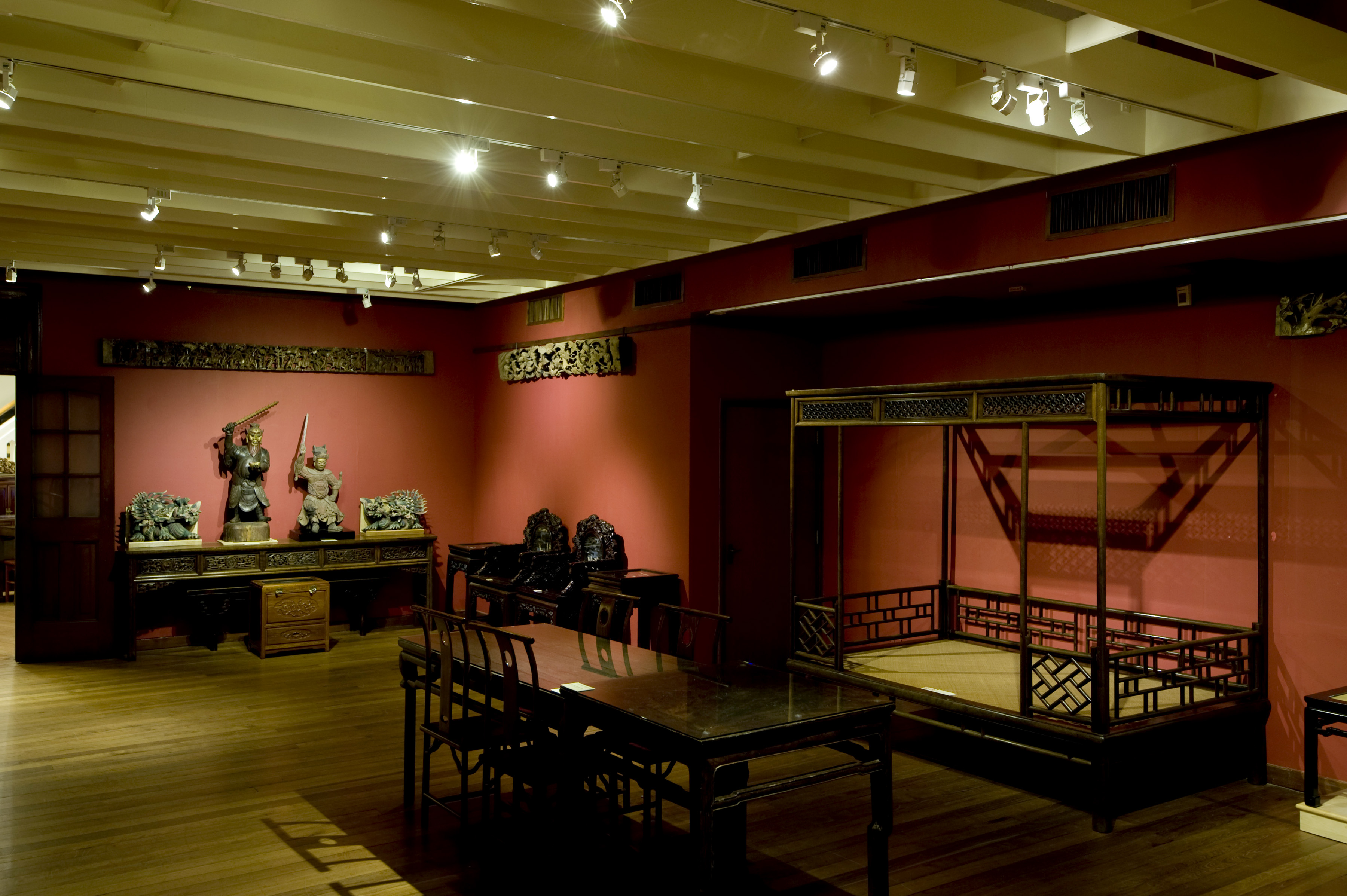 何羅綺文展覽廳